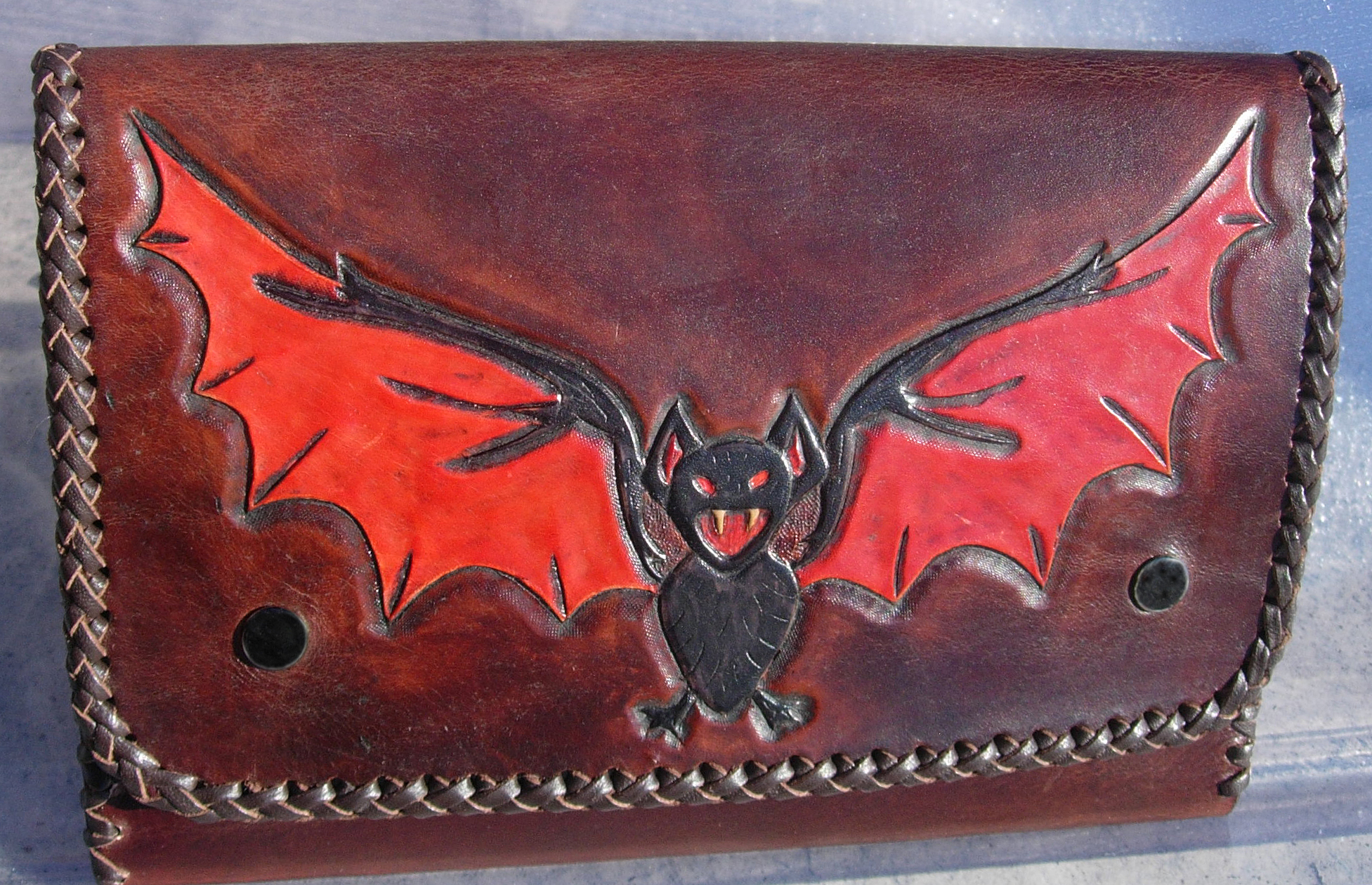 Bag for ebook reader